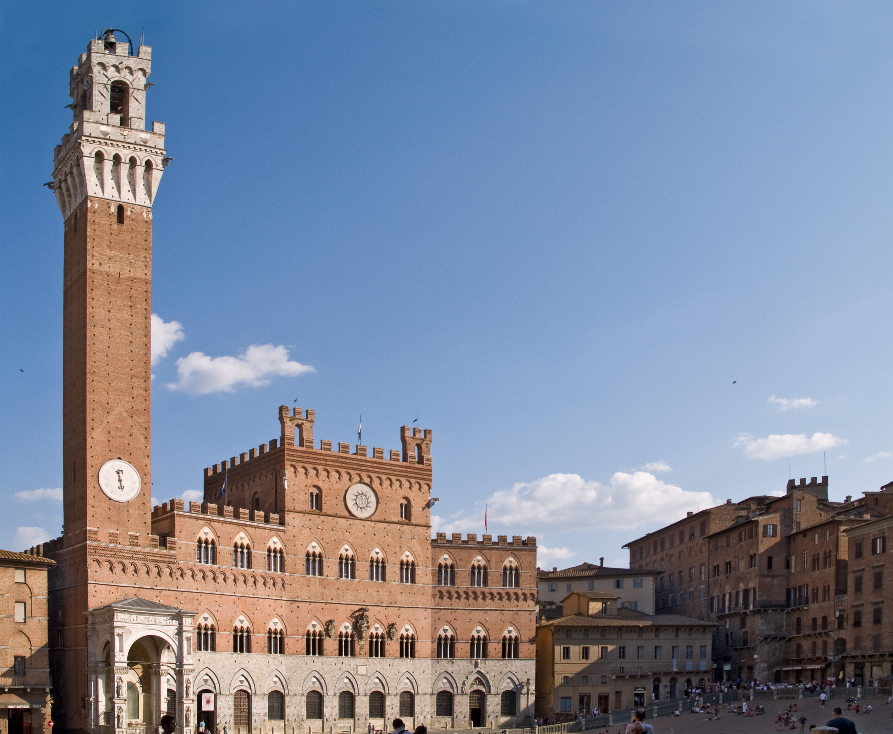 The Palazzo Pubblico (town hall) and the Torre del Mangia in Siena, in the Tuscany region of Italy.